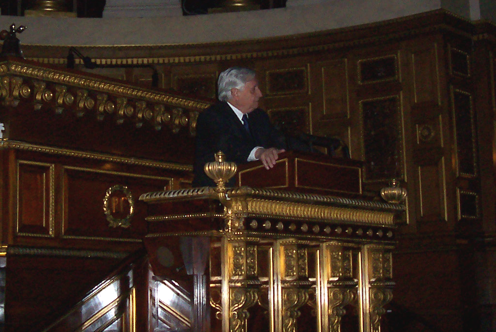 Photo of the french senator and former minister of Research Jacques Valade in the Sénat during the meeting of Engineers of ENSCPB